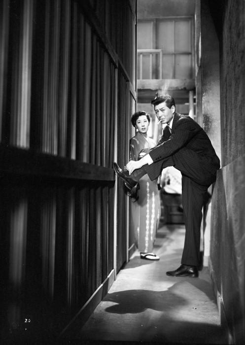 Ryō Ikebe and Isuzu Yamada from Gendai-jin